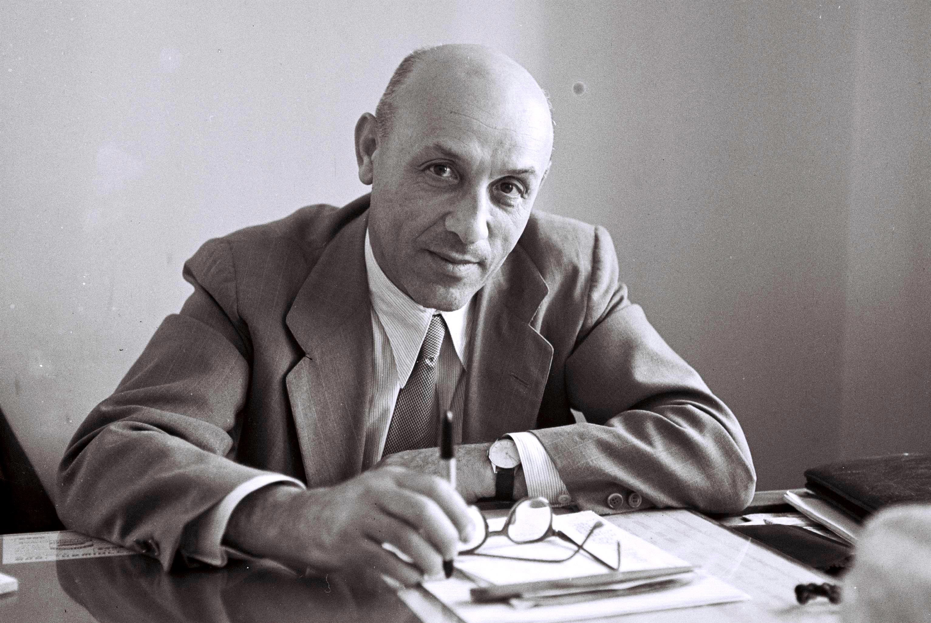 HISTADRUT SECRETARY GENERAL MORDECHAI NAMIR.